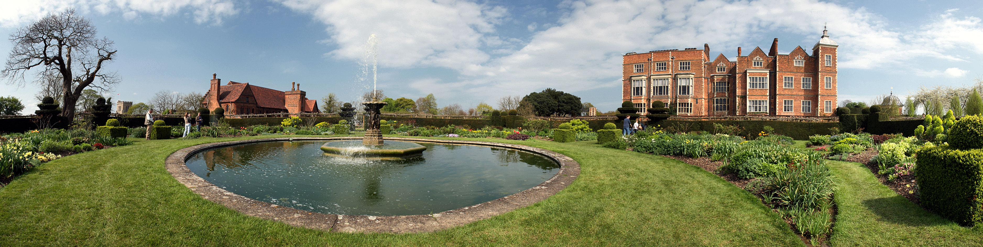 Panoramic photograph of Hatfield House & Gardens